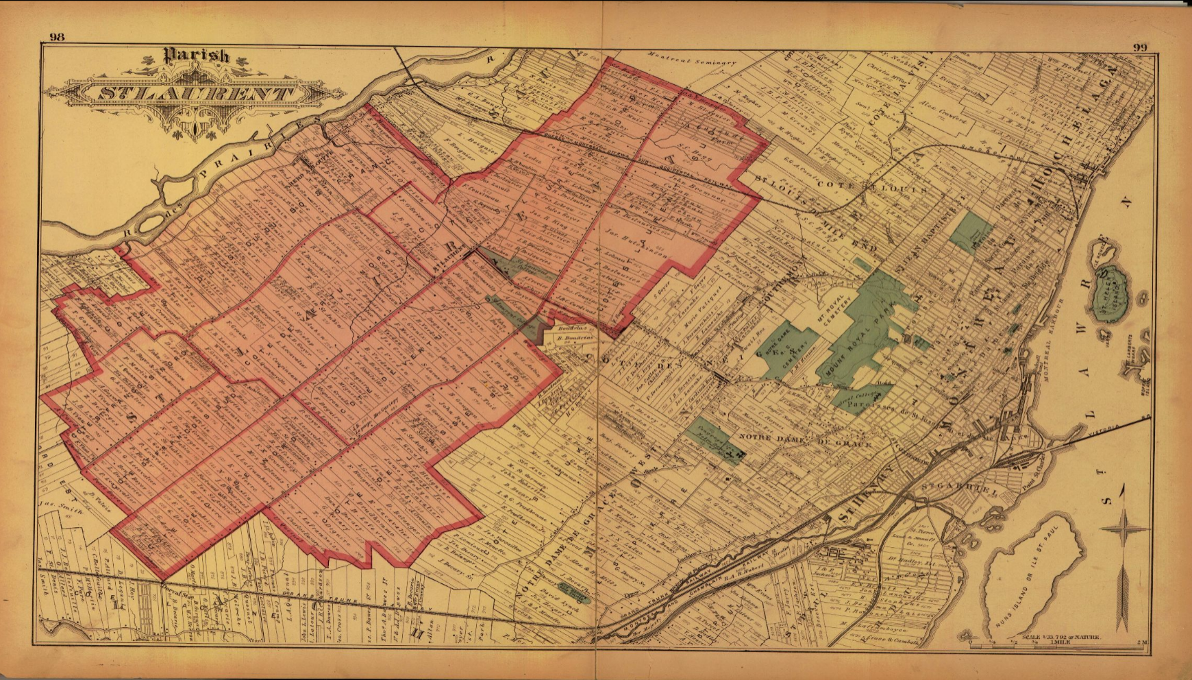 The Parish of Saint Laurent area highlighted in the Atlas of the city and island of Montreal.